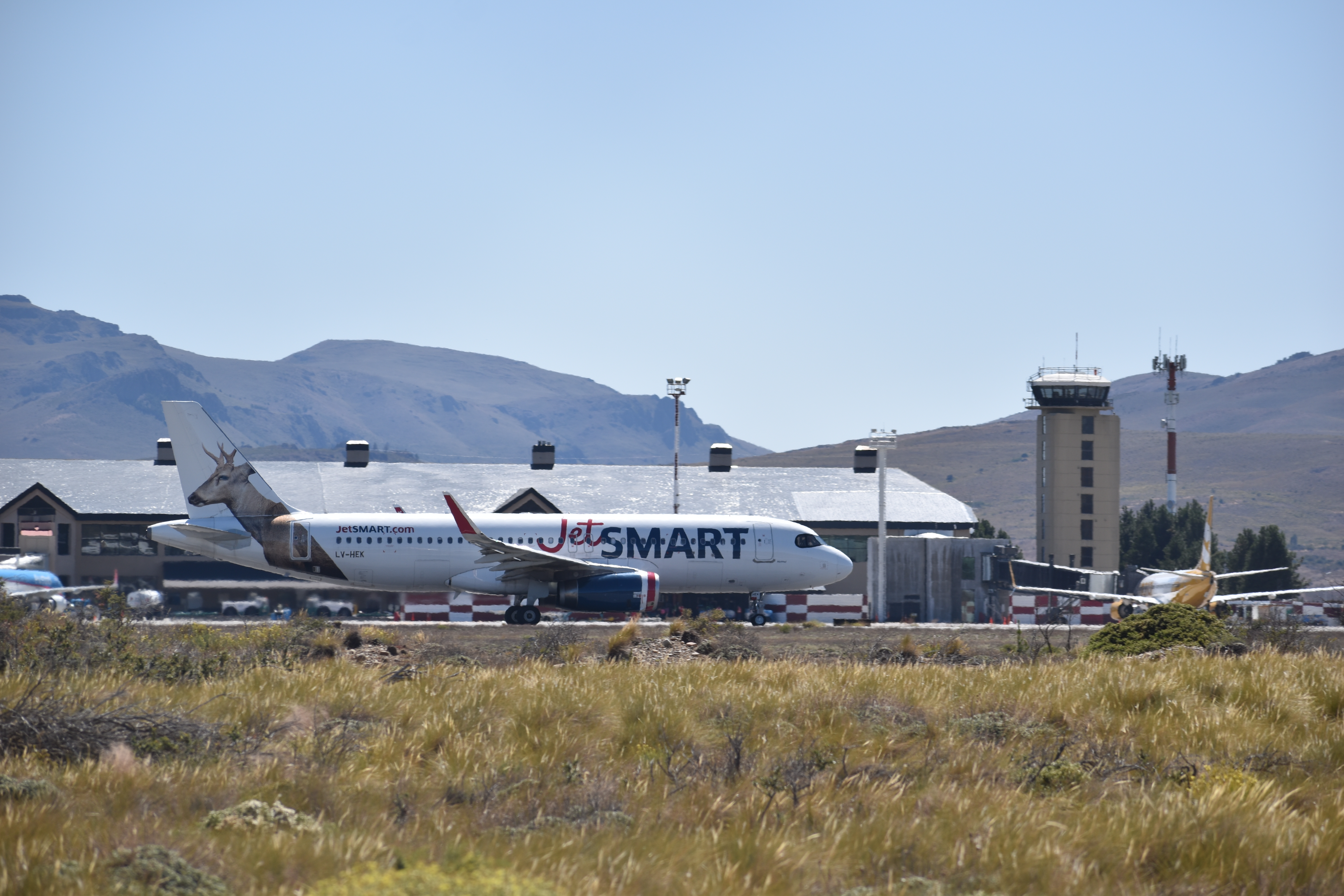 Airbus A320 of JetSmart Argentina taking off at Bariloche Airport.